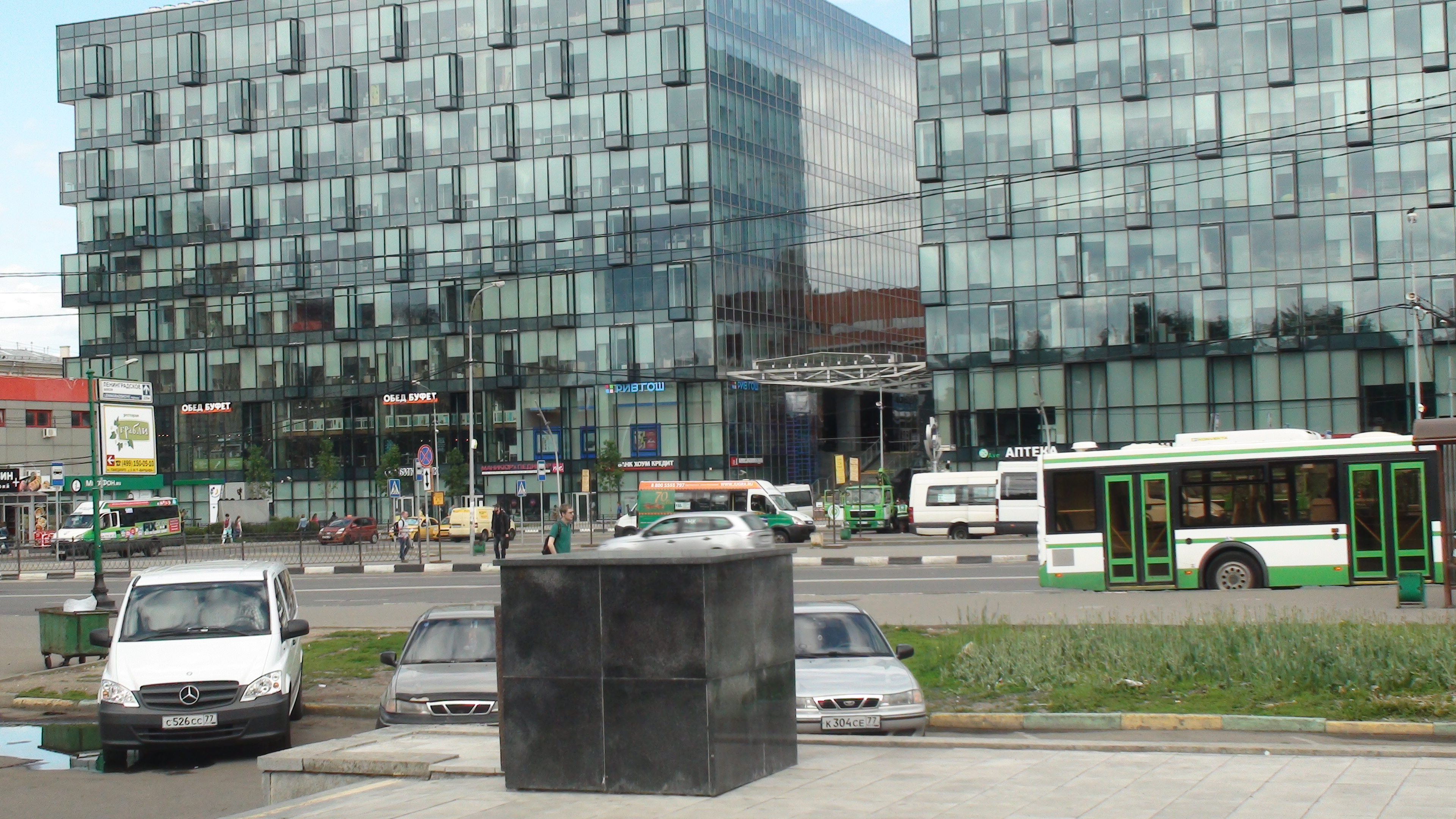 Ganetskogo Square